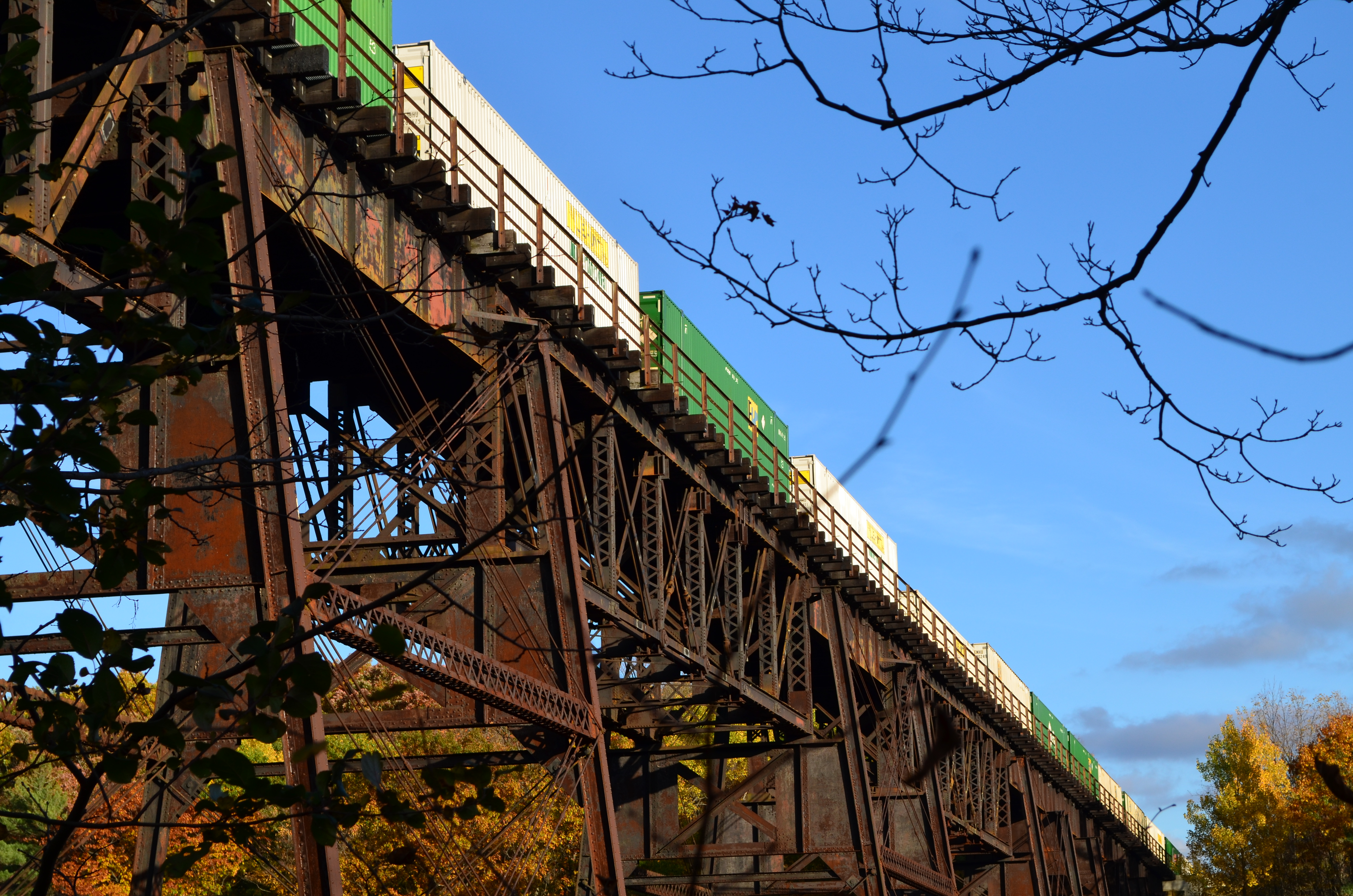 The Portage Viaduct was built in 1875 and is slated for demolition at any time. Crosses the Genesee River gorge in Letchworth State Park, Livingston County, New York.